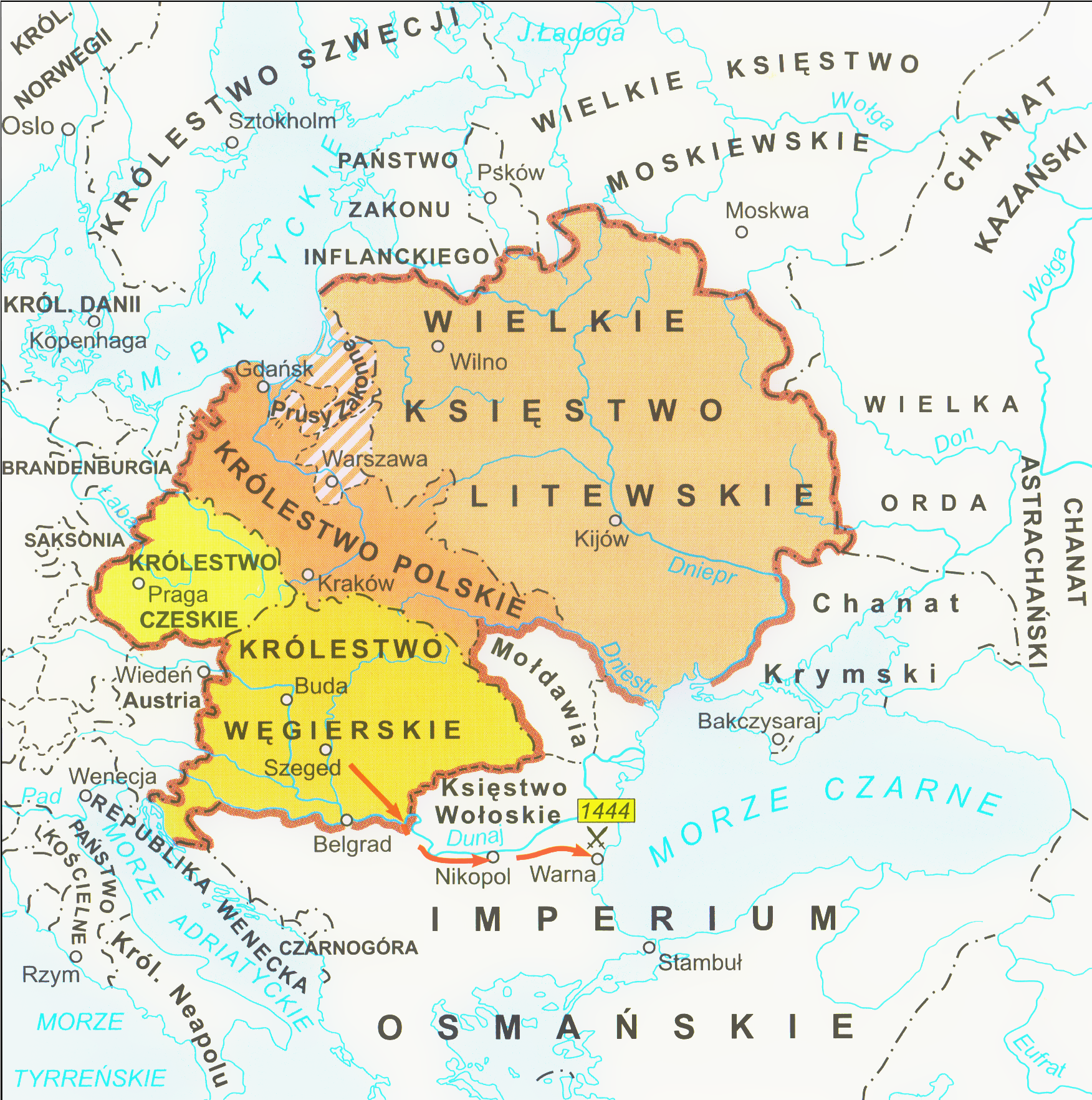 Jagiellonian dynasty